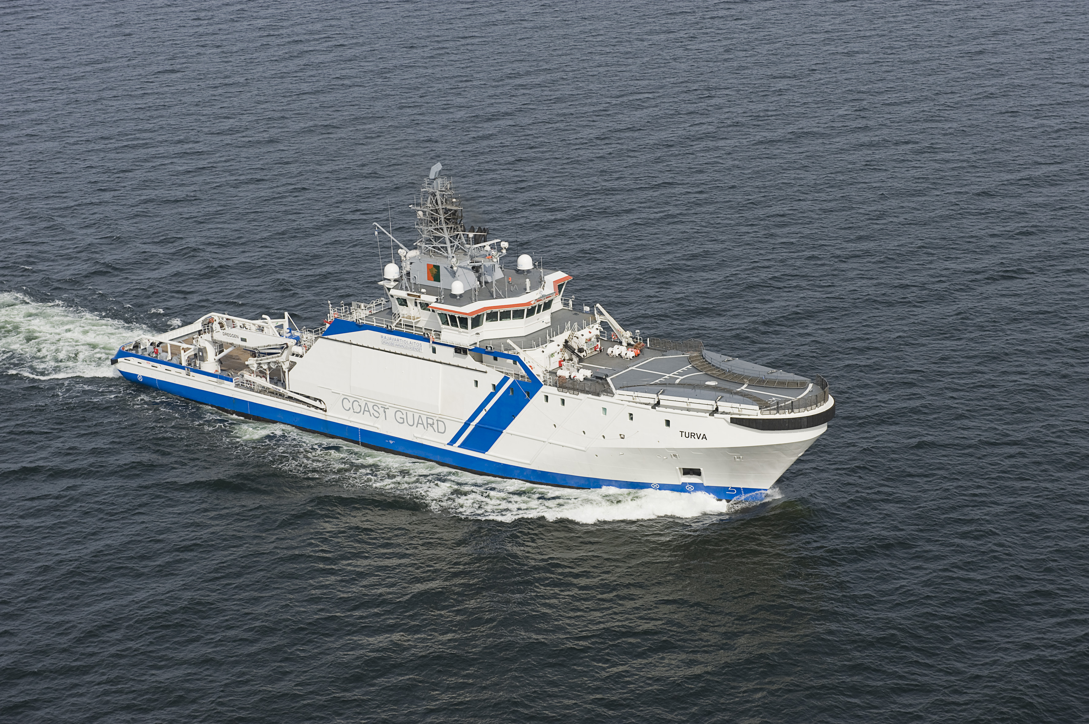 Patrol vessel Turva from air. Photographer: Finnish Border Guard. fiVartiolaiva Turva ilmasta. Kuvaaja: Rajavartiolaitos. Kymenlaakson museo, Merivartiomuseo MVMMVMV118:5